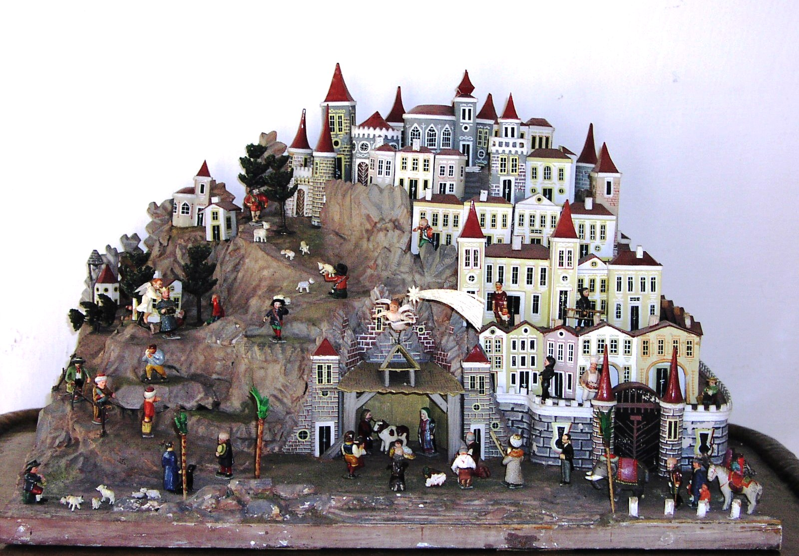 Nativity scene, Kraliky, East Bohemia, 19th. century